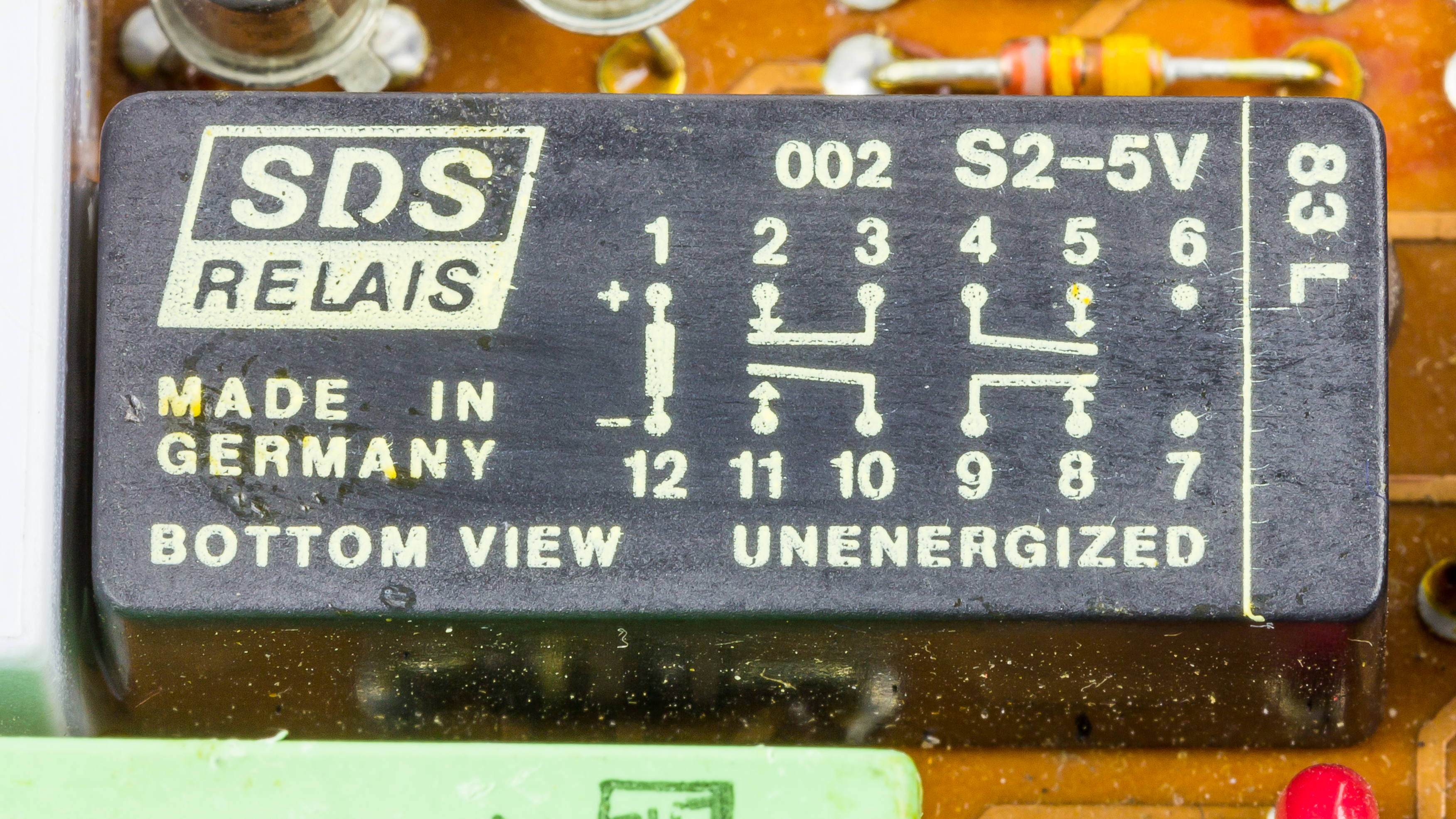 ANT Nachrichtentechnik DBT-03 - SDS Relais S2-5V - Relays